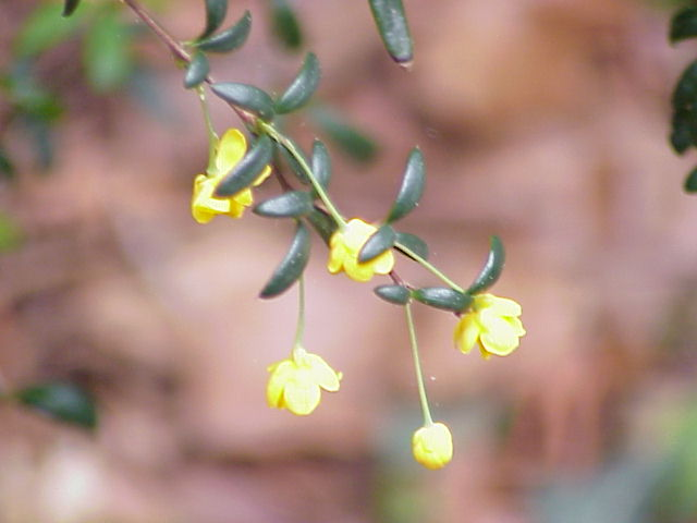 Species: Berberis x stenophylla Family: Berberidaceae Image No. 2